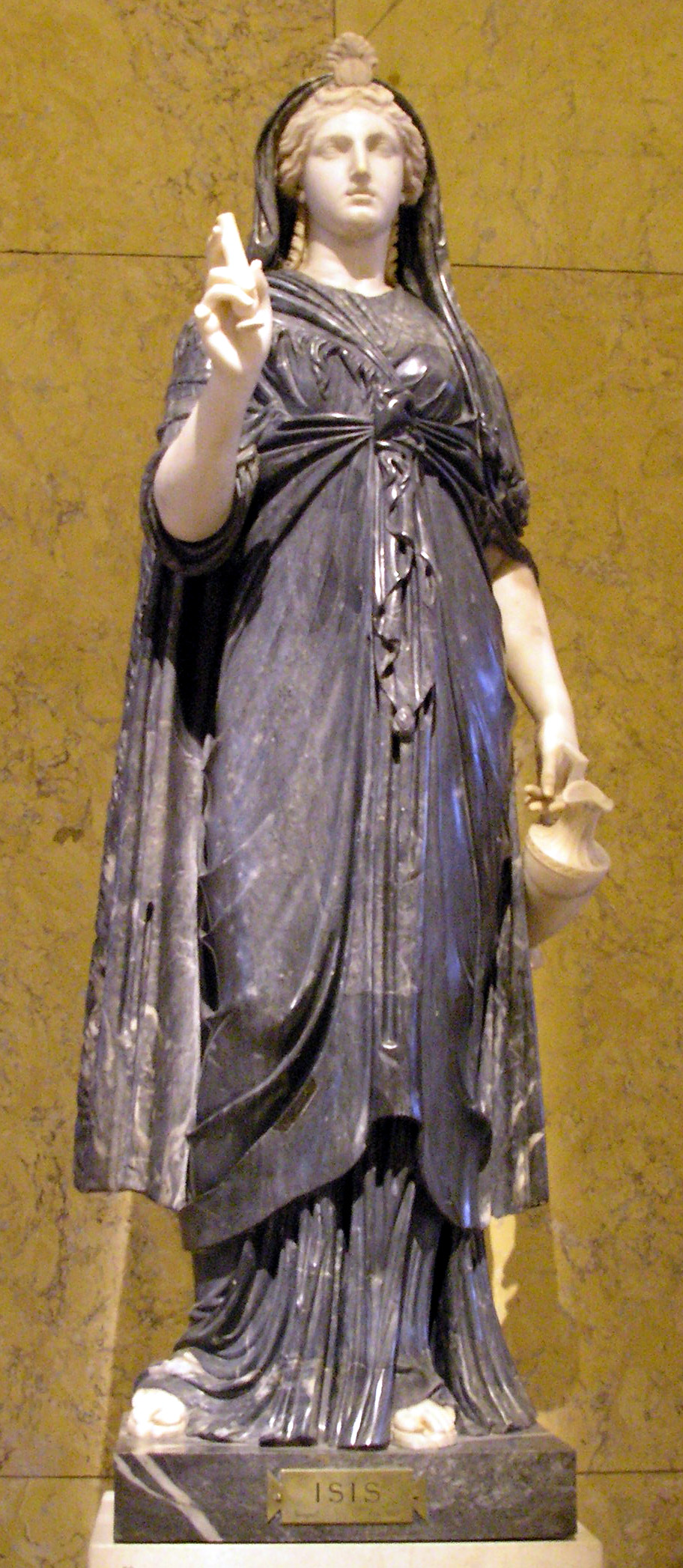 Ancient Roman statue of Isis, in the Collection of Greek and Roman Antiquities in the Kunsthistorisches Museum, Vienna. First half of the 2nd century, found in Naples, Italy. Made out of black and white marble. Inv. # I 158. Isis, originally an Egyptian goddess, was increasingly popular amongst Romans, who made her one of their own, with Roman attire, features and dress.